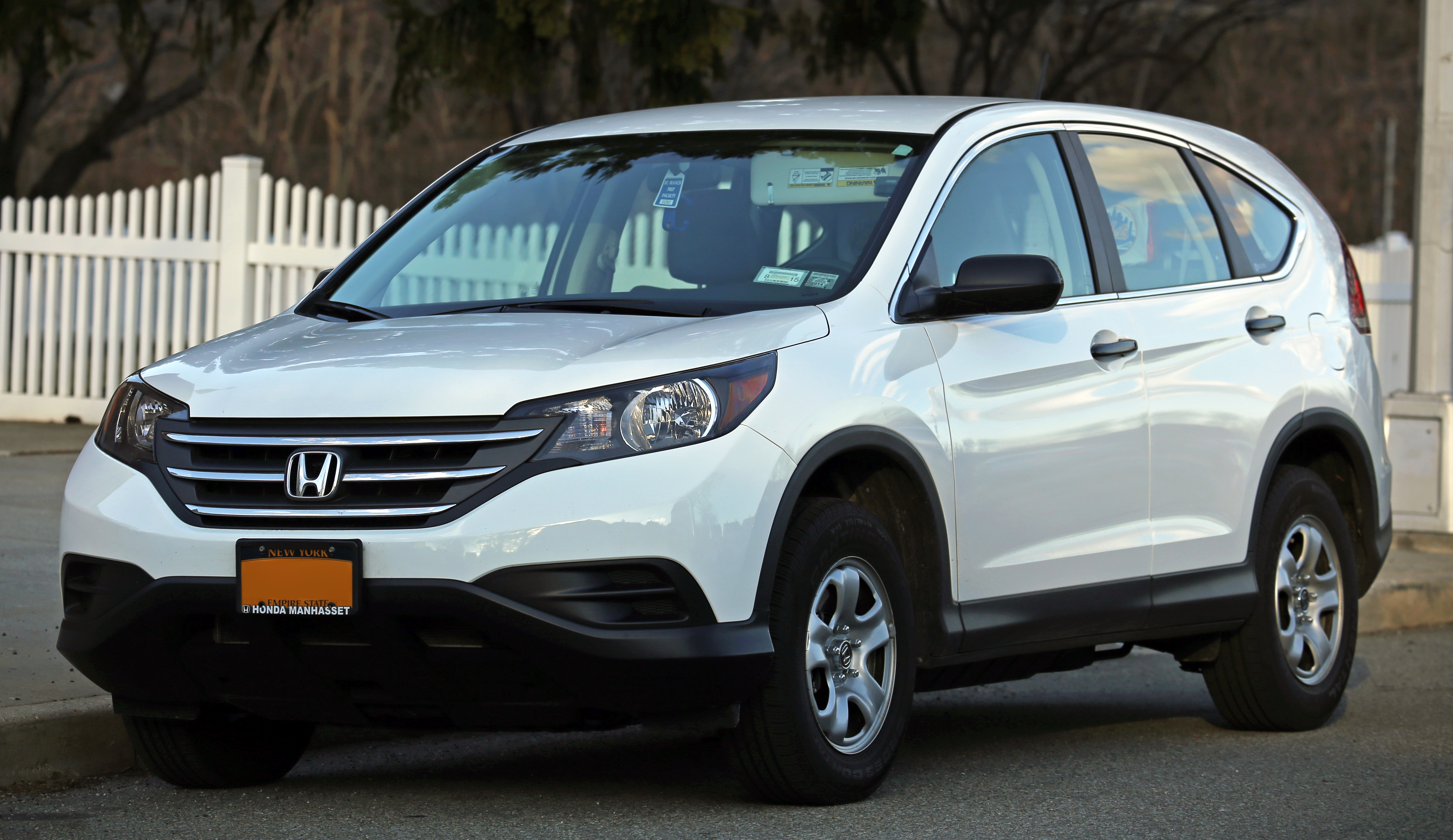 2012 Honda CR-V, built in Alliston, Ontario. 2.4 litre inline-four and 4WD.